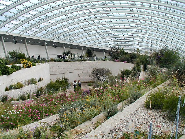 Greenhouse, National Botanic Gardens for Wales.